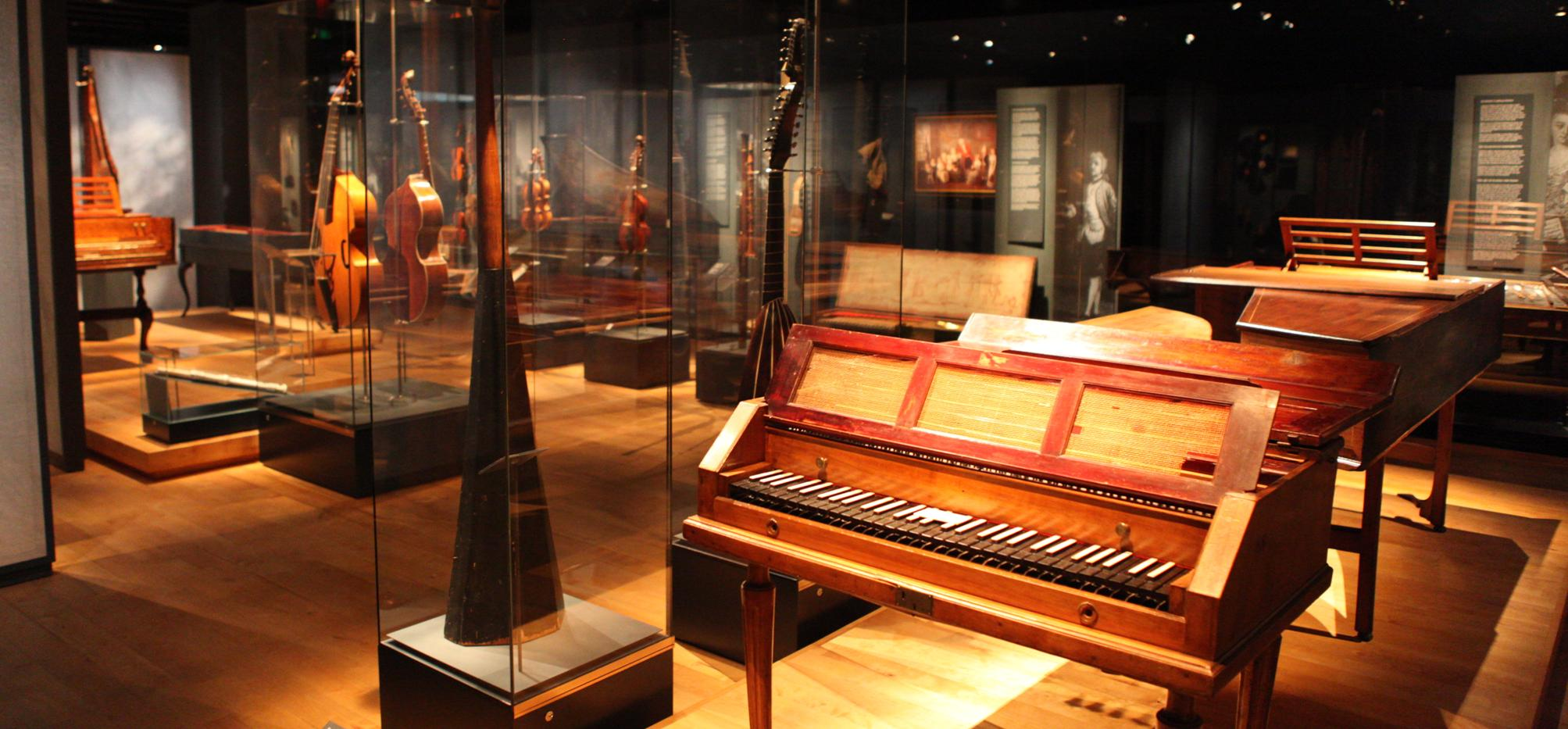 Exhibition in the barn.